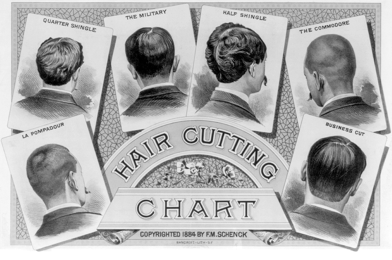 Hair cutting chart.Row 1: Quarter shingle. The Military. Half shingle. The Commodore.Row 2: La Pompadour. Business cut.